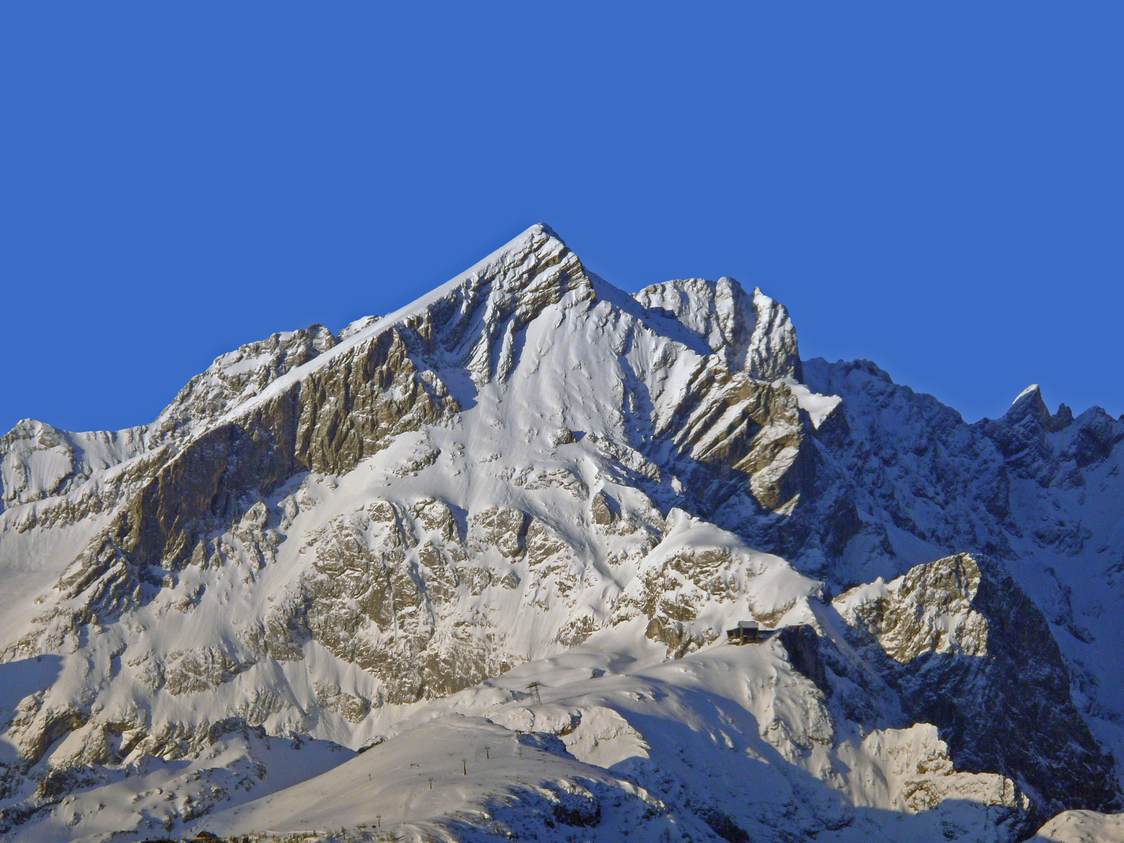 The Alpspitze in the Wettersteingebirge (Alps in Upper Bavaria) at Wintertime.